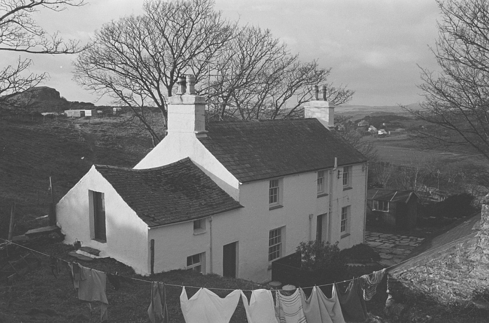 A ghost disturbs Pete and Sian Allport after moving to Garreg Wen near Porthmadog, home of the harpist Dafydd y Garreg Wen